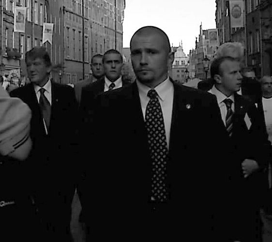 Bodyguards of Viktor Yushchenko (far left). Taken as the group left Gdansk city hall on the day of the 20th anniversary of Solidarność uprising.